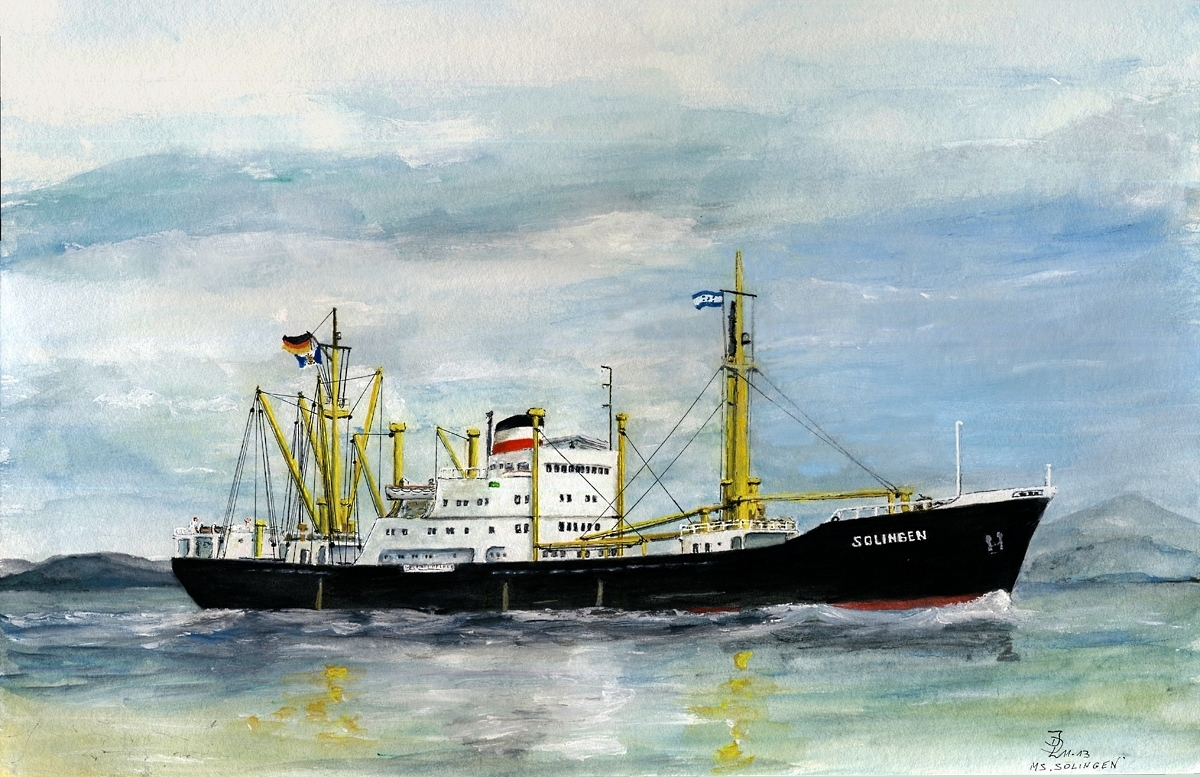 HAPAG cargo ship Solingen in 1966 at the West Indies, Central America - Island - Service. The vessel ist steering a northerly course and in the background is the coast of British Honduras, today Belize. Gouache from Jan-E. Lenz, a self-taught amateur artist of the Prince Island in Ploen)